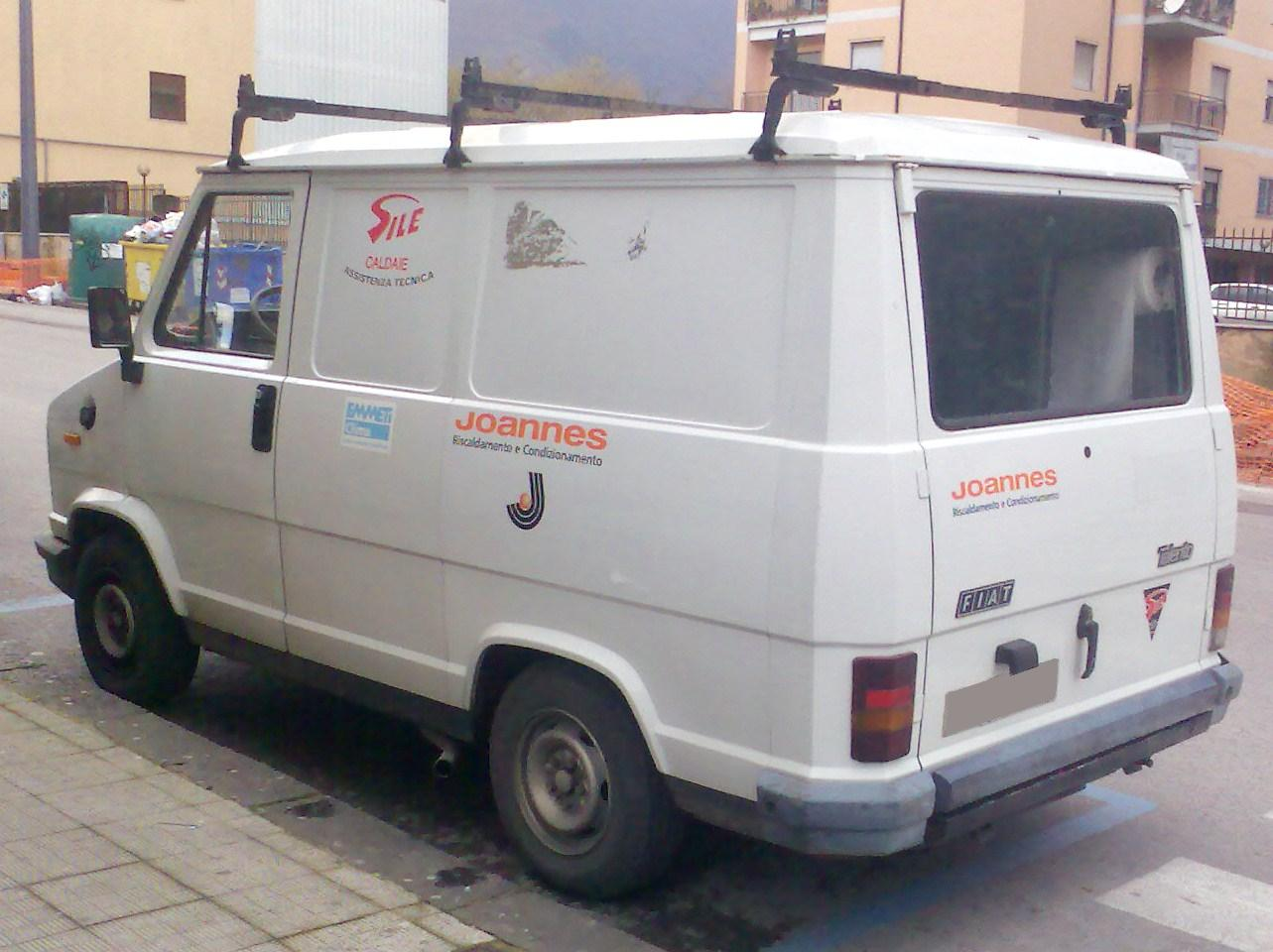 Fiat Talento Cargo